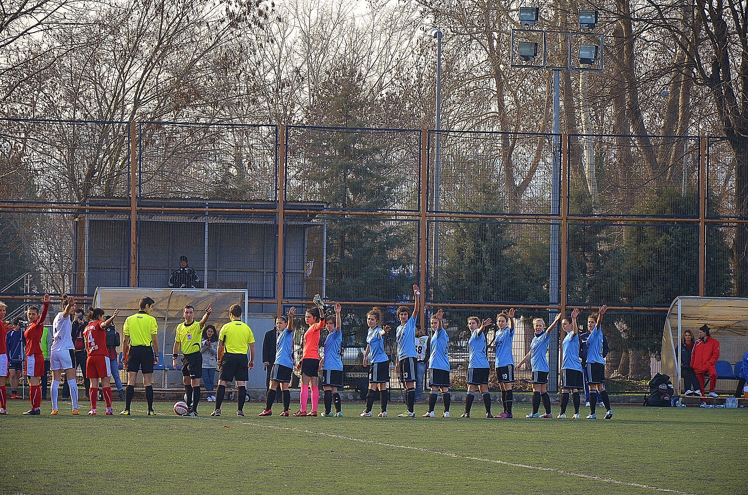 Marmara Üniversitesi Spor women's football team at Turkish Women's First League home match against Konak Belediyespor on Jan 12, 2014